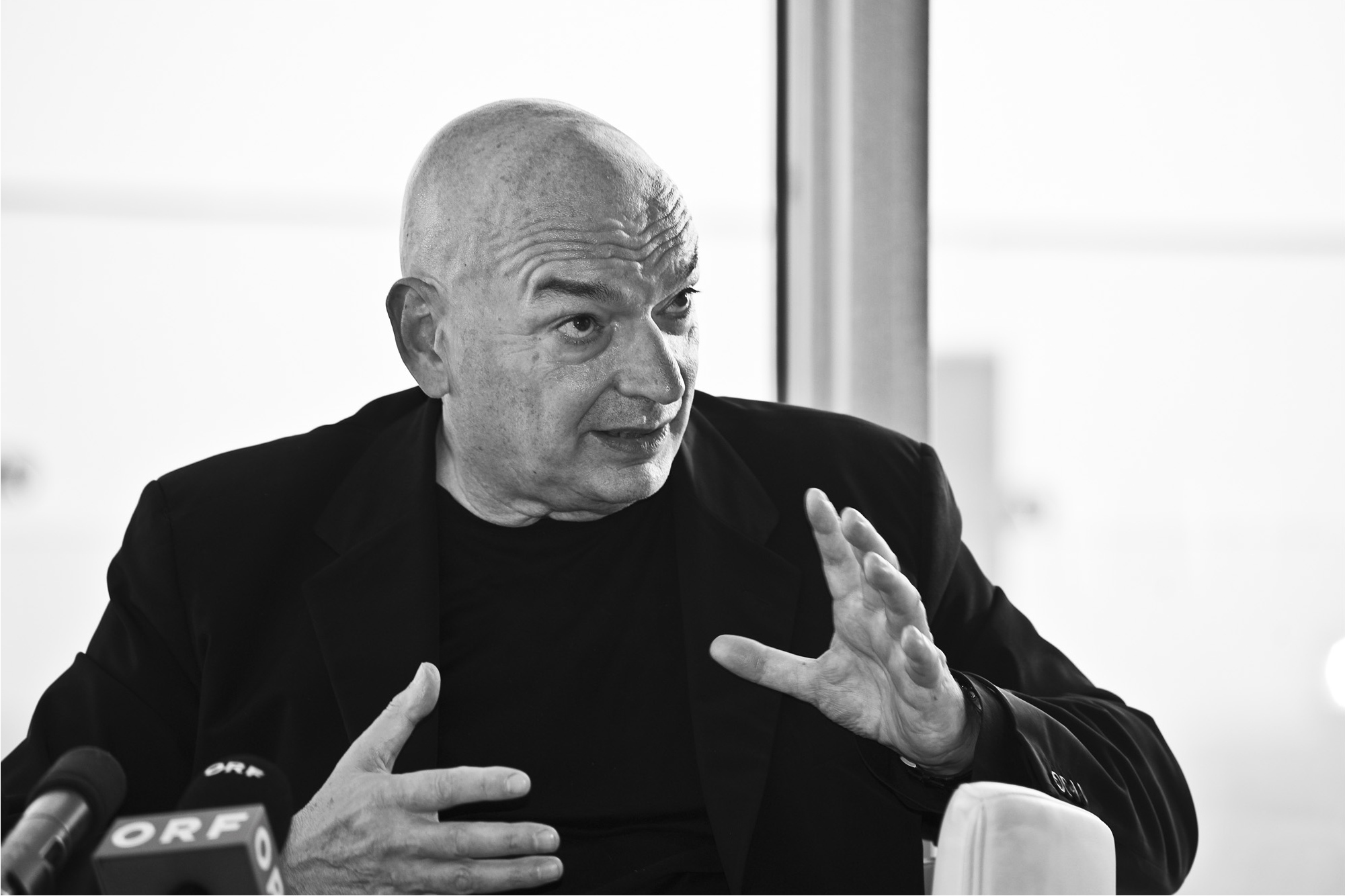 Jean Nouvel presenting his projects at Odeon, Vienna, September 2009.